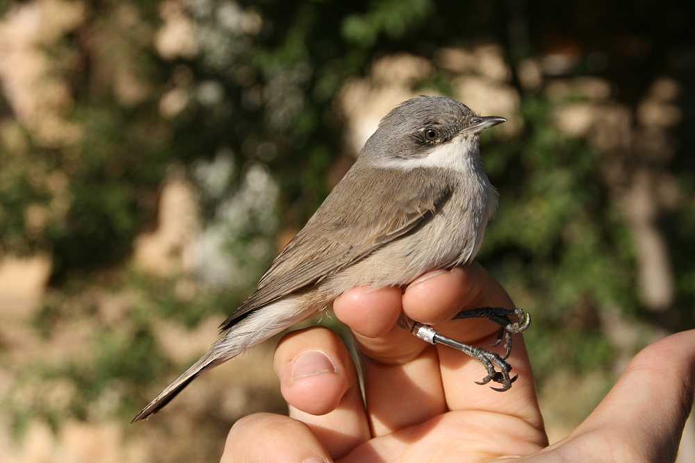 Lesser whitethroat (Sylvia curruca)